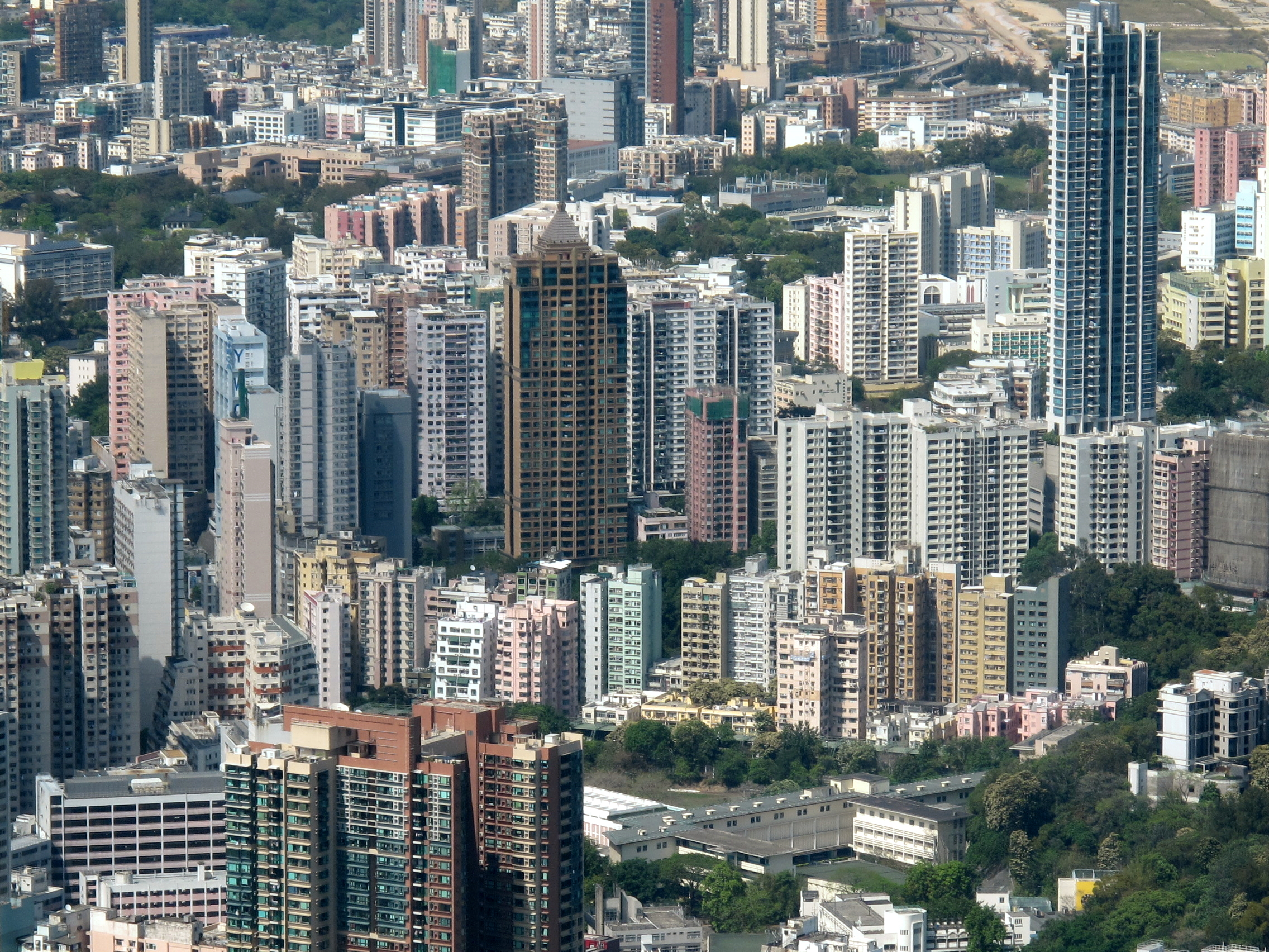 Ho Man Tin Apartment